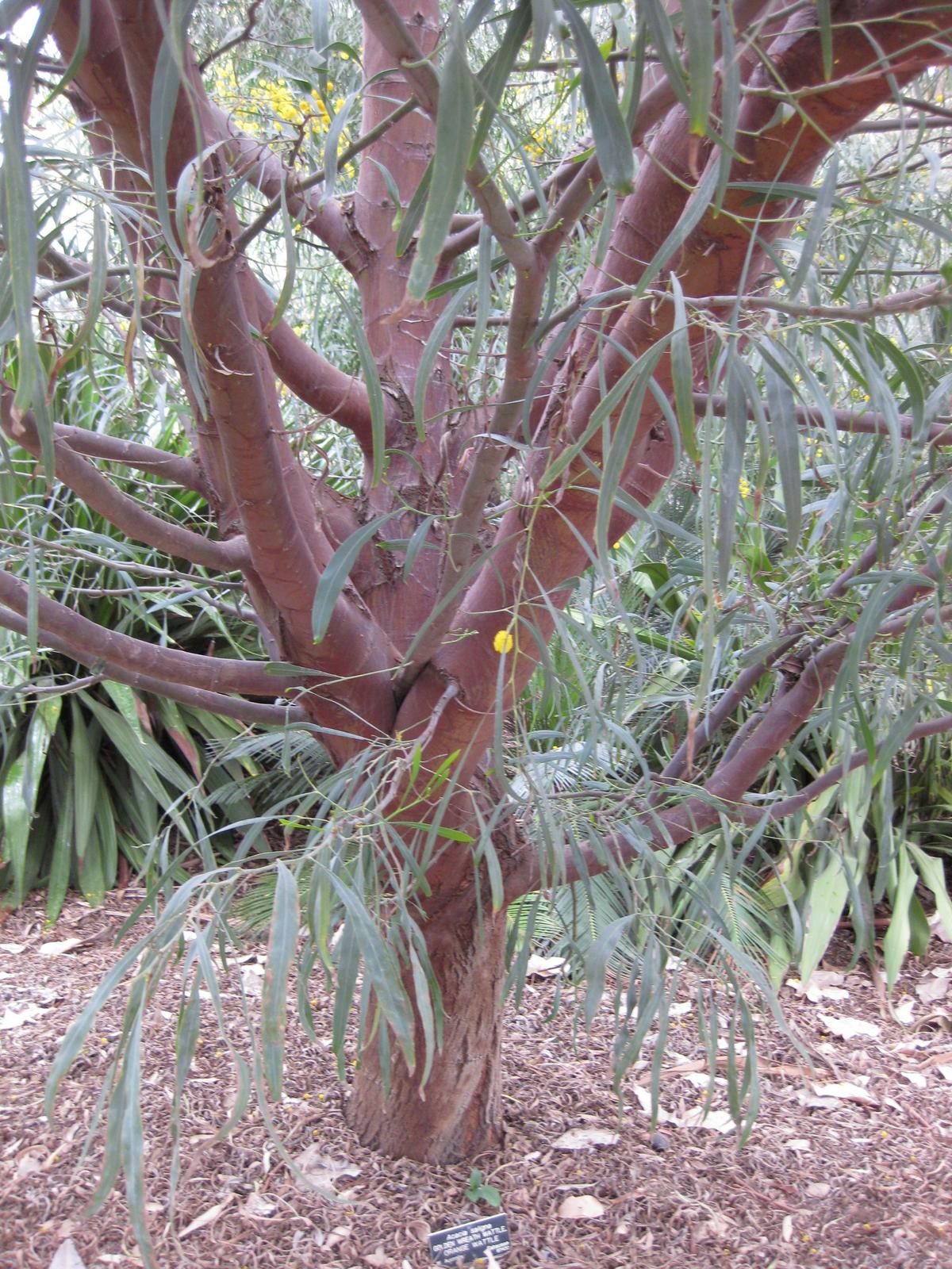 Photographed at Huntington Gardens (Los Angeles) in April